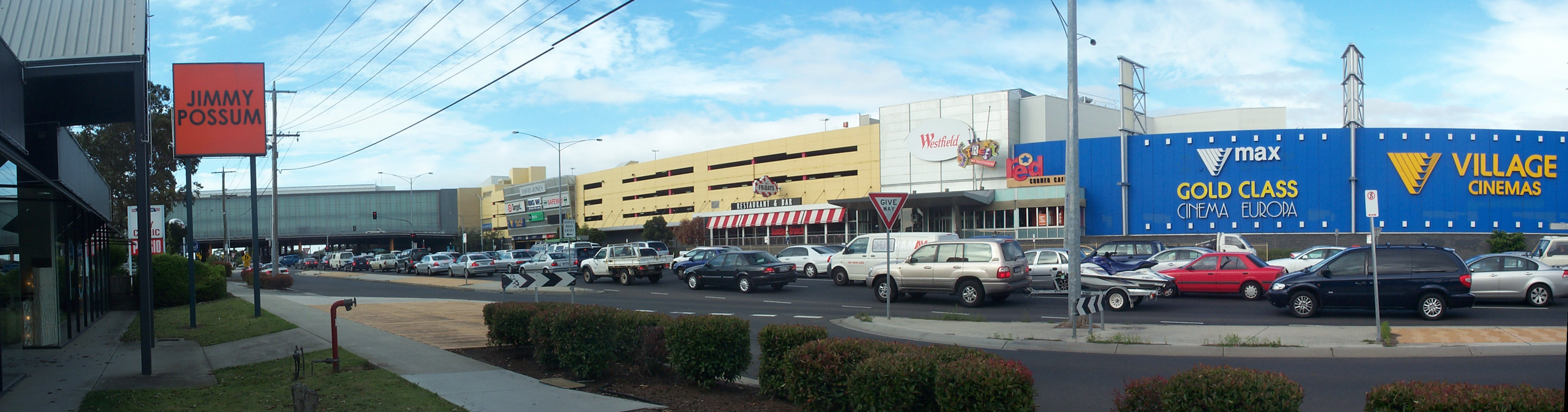 Southland Shopping Centre, Cheltenham, Victoria, Australia